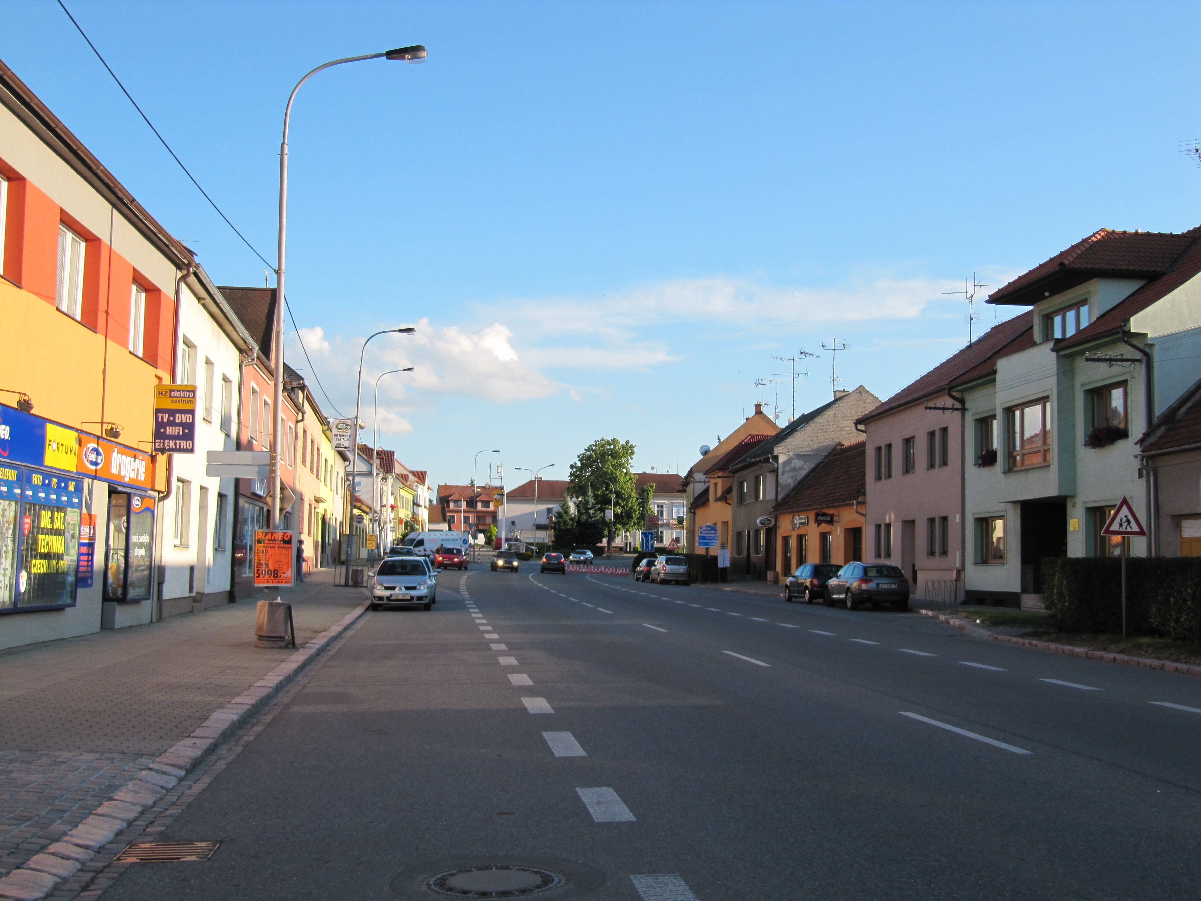 Kunovice in Uherské Hradiště District, Czech Republic. Na Rynku street.